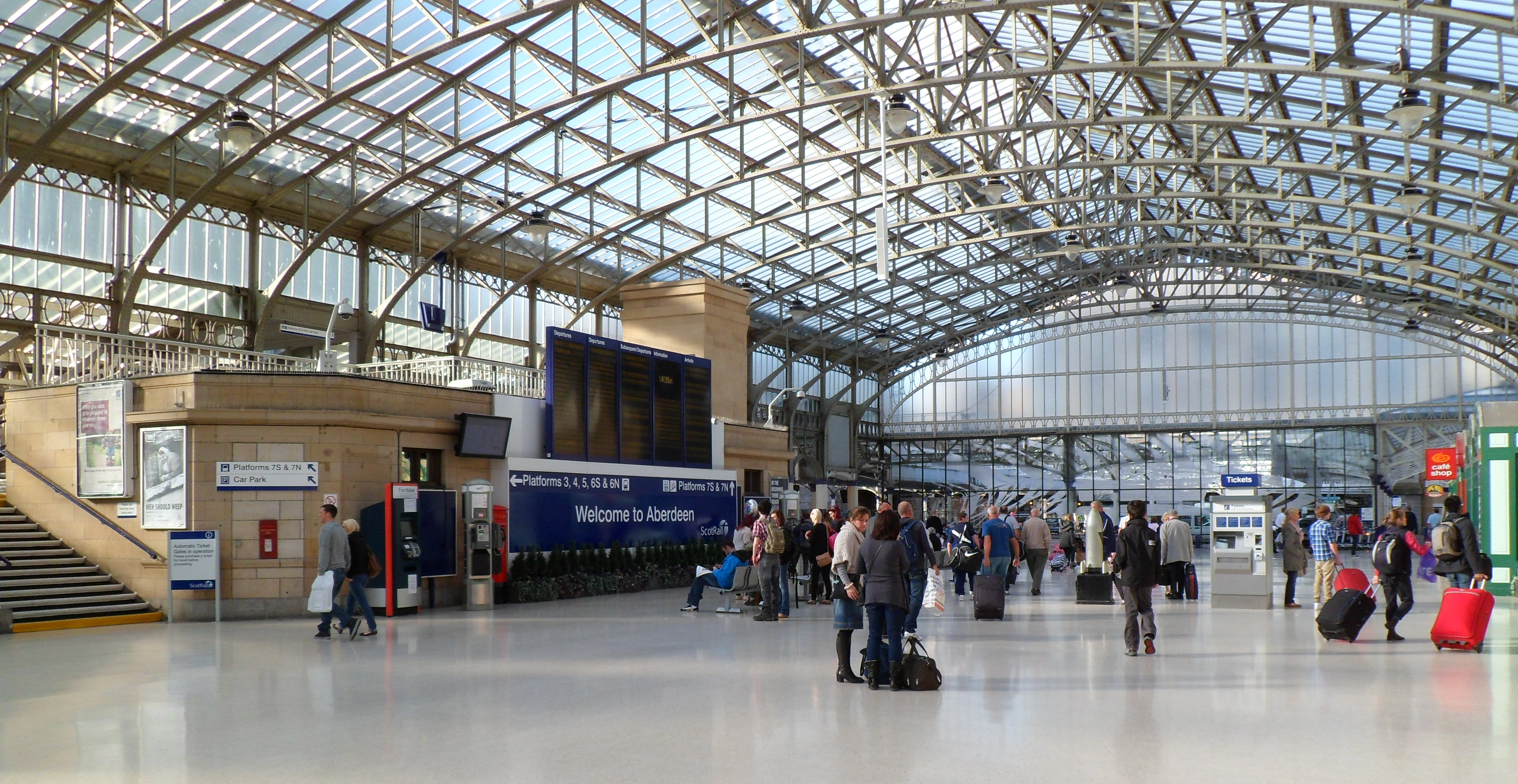 Rail Station Hall in Aberdeen